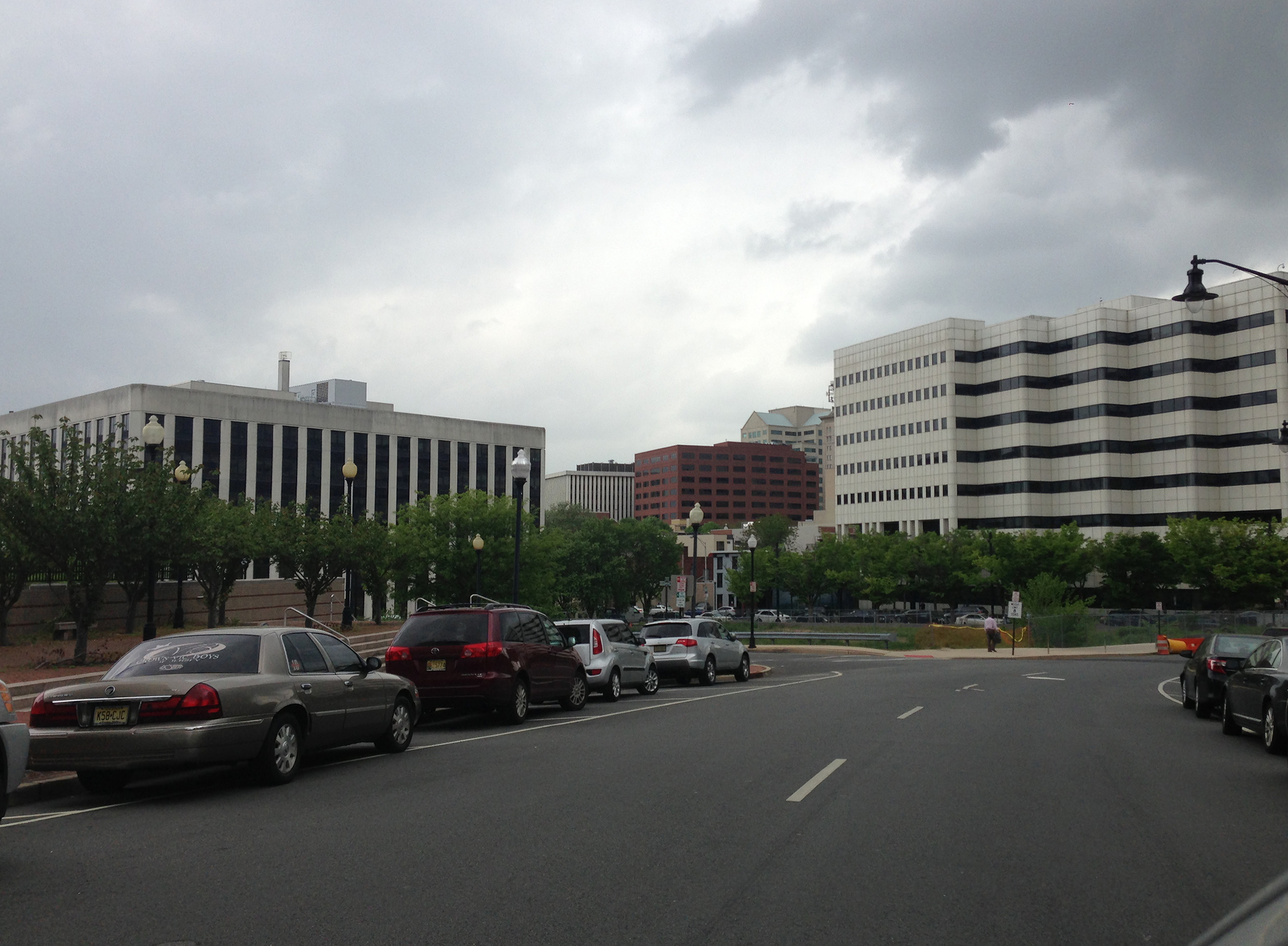 View north along South Broad Street (U.S. Route 206) in downtown Trenton, New Jersey